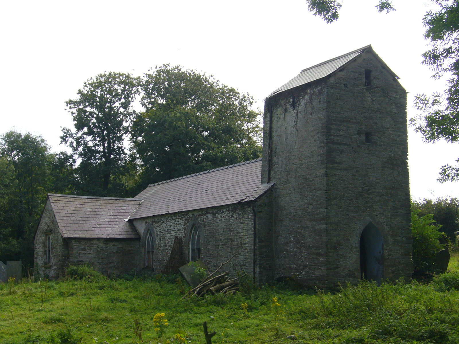 Church of St. Michael at Pen-bedw. Although ruined, someone has gone to the trouble of clearing the vegetation which was smothering the church - . The nearby 572018 is now the church for this area.